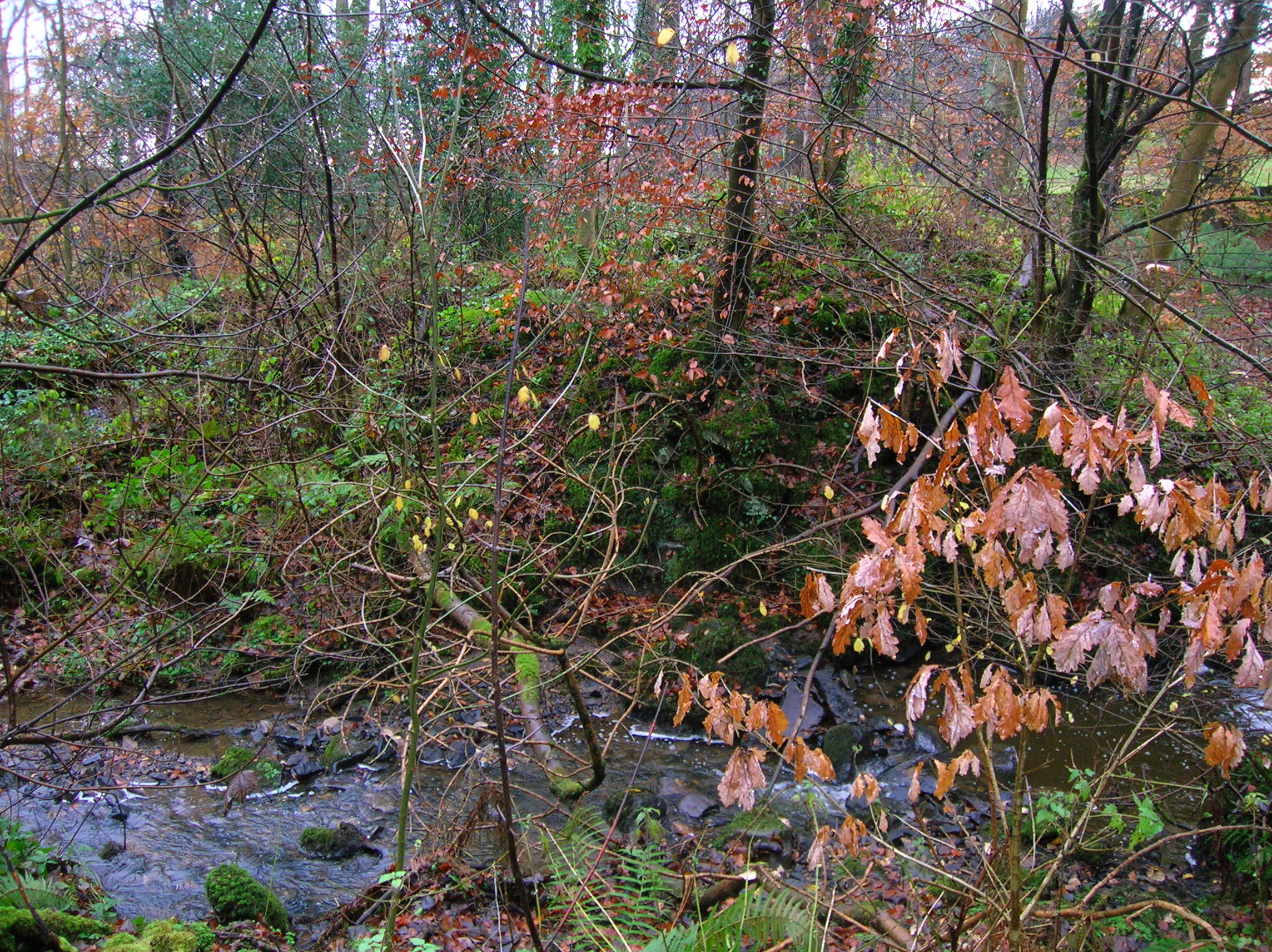 This mound is said to represent the old dovecot or doocot at Old Monkcastle, Dalry, Ayrshire, Scotland. An ice house seems more likely.